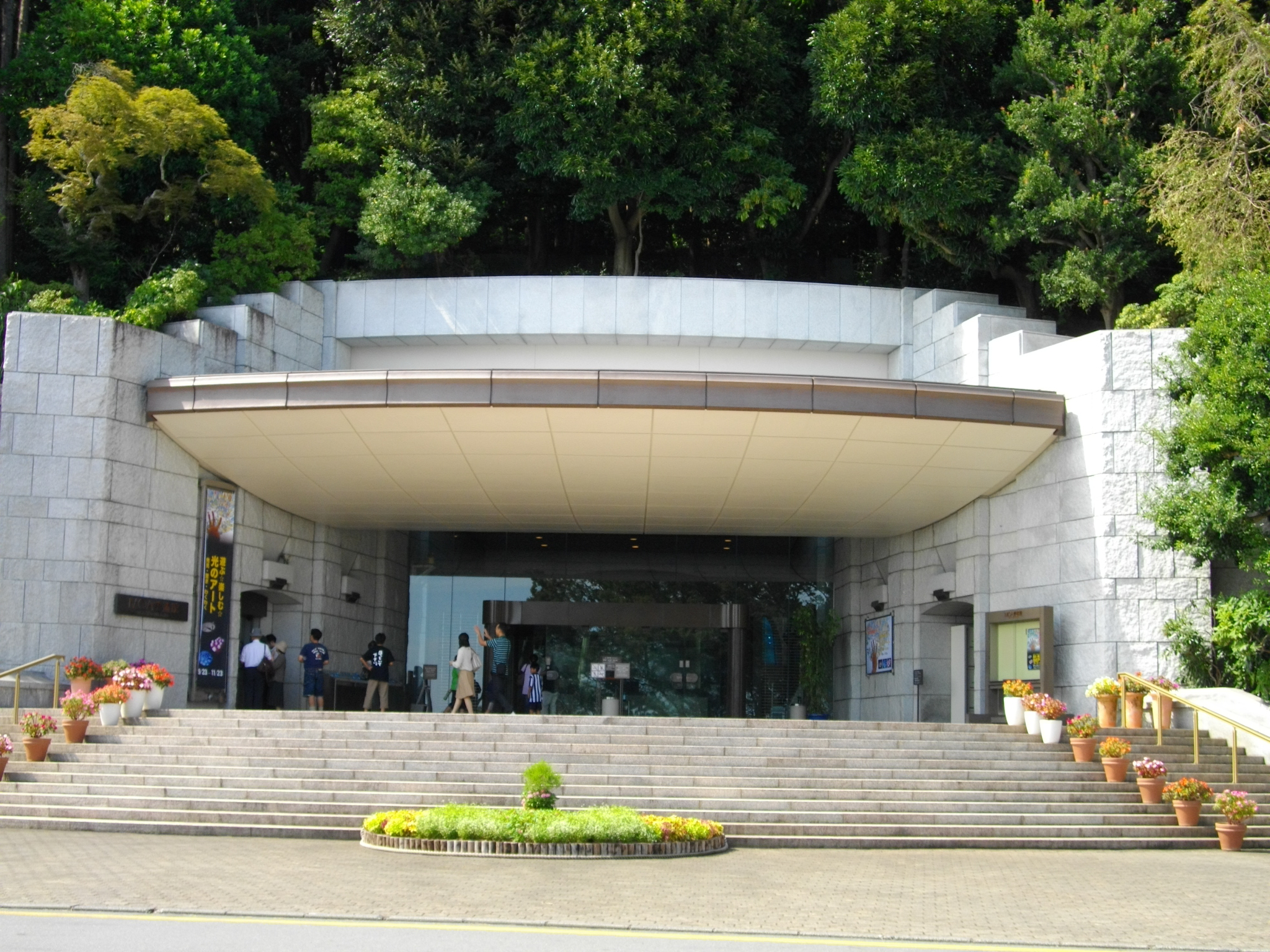 Entrance to MOA Museum of Art